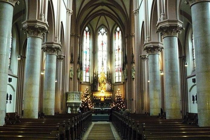 Vienna - Laurentiuskirche in Penzing District.